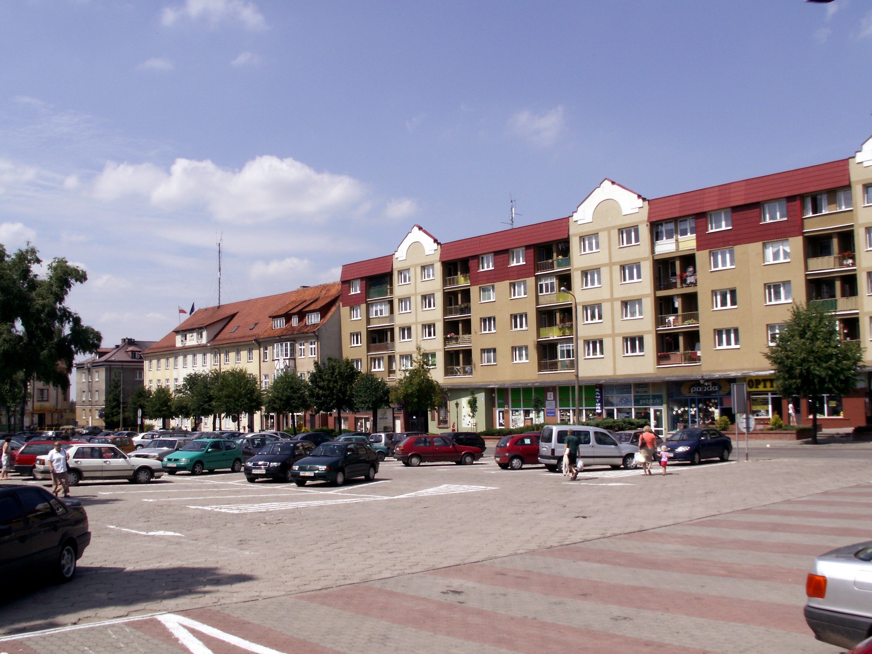 Zwycięstwa (Victory) Square in Gołdap